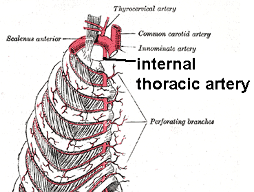 Origin of internal thoracic artery.